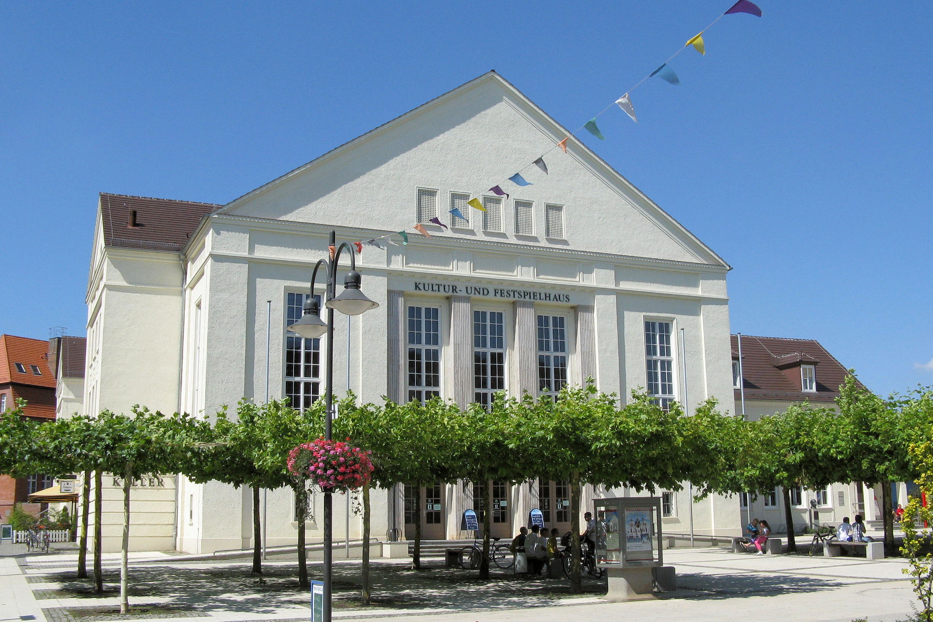 Community centre in Wittenberge, disctrict Prignitz, Brandenburg, Germany